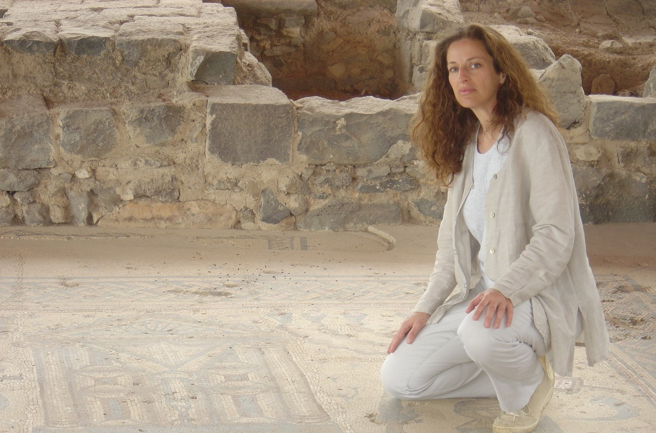 Katharina Galor in the ancient synagogue Hamat Tiberias at lake Genezareth